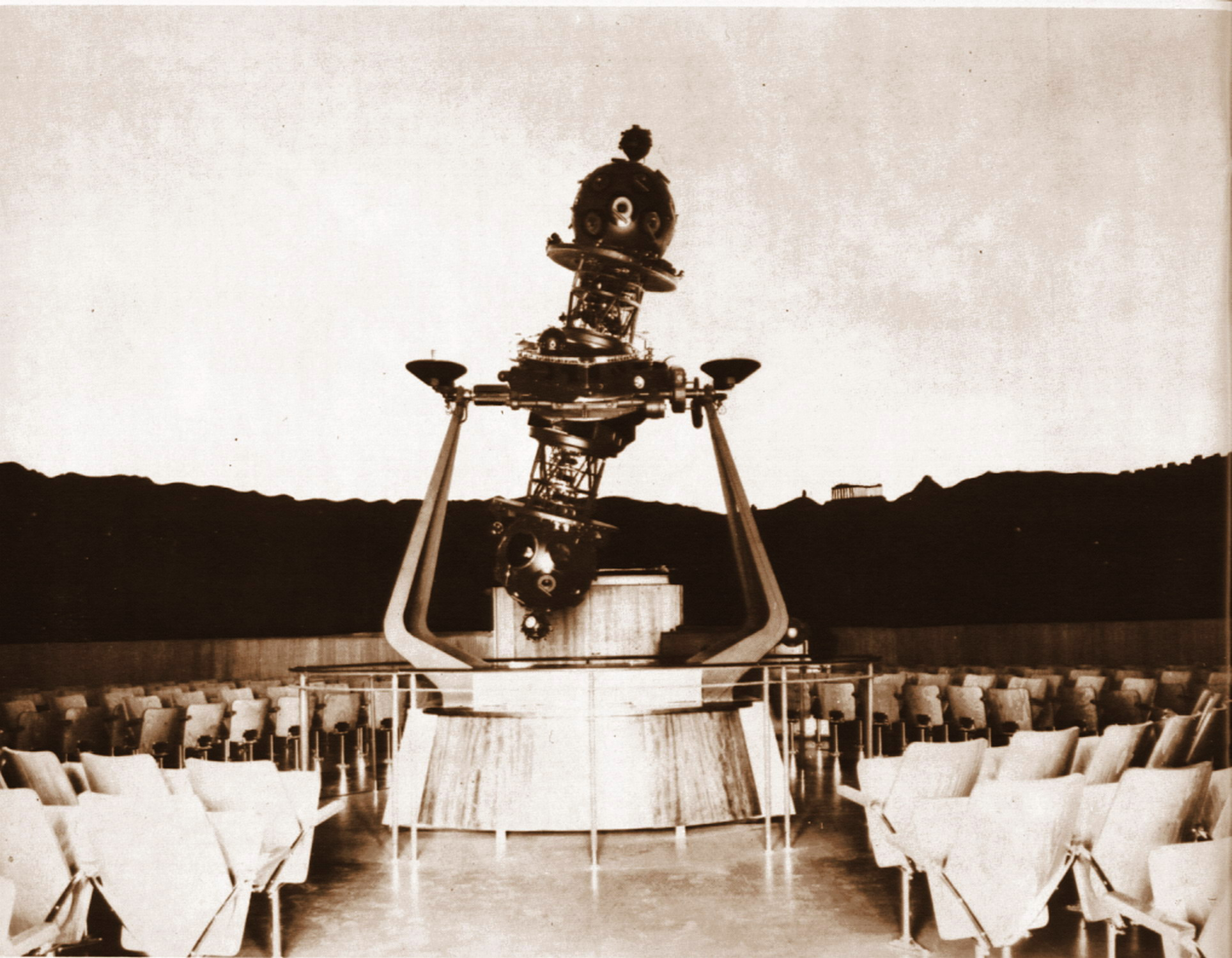 Zeiss star projector at Eugenides Planetarium in Paleo Faliro, Greece.